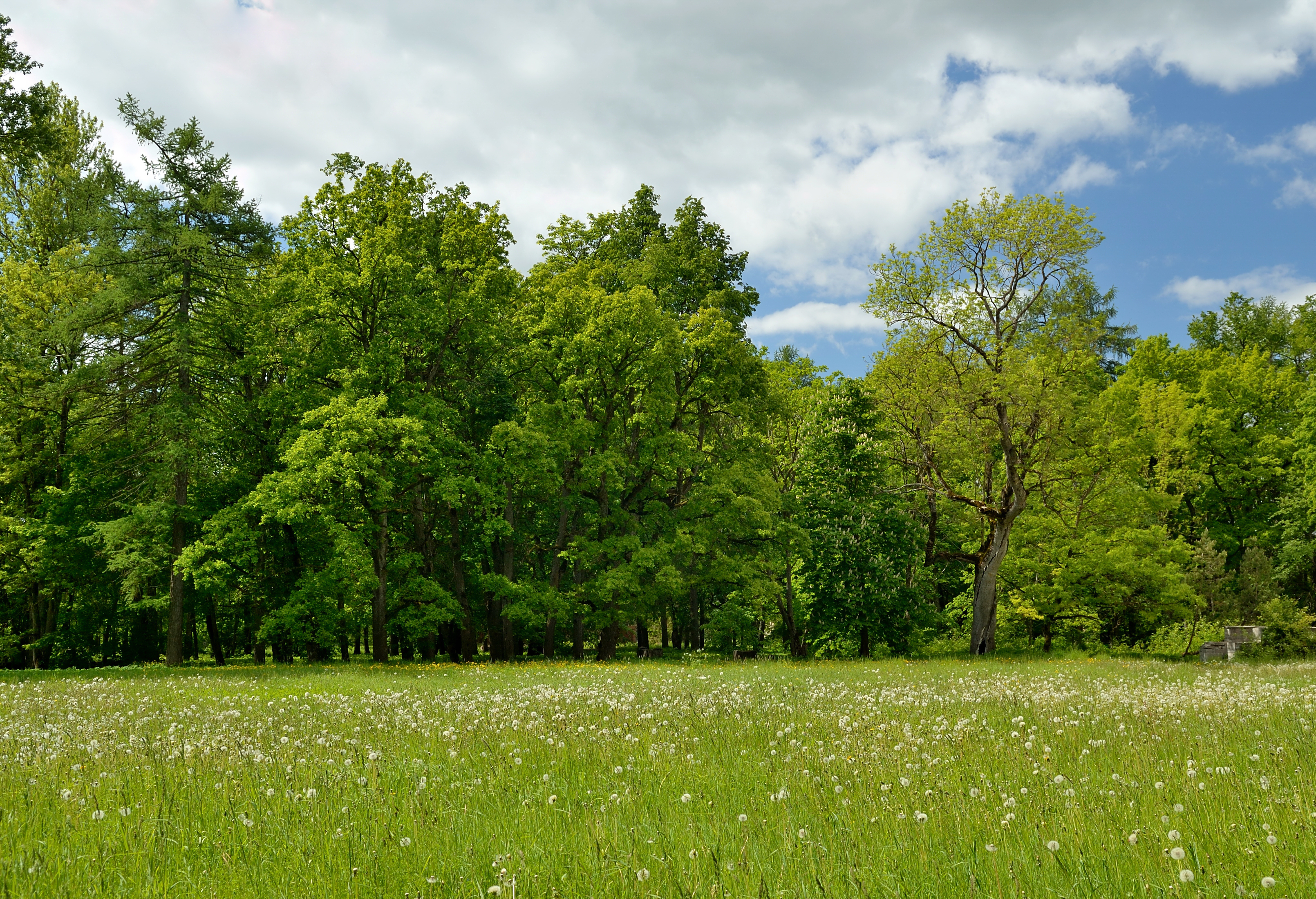 Arkna manor park